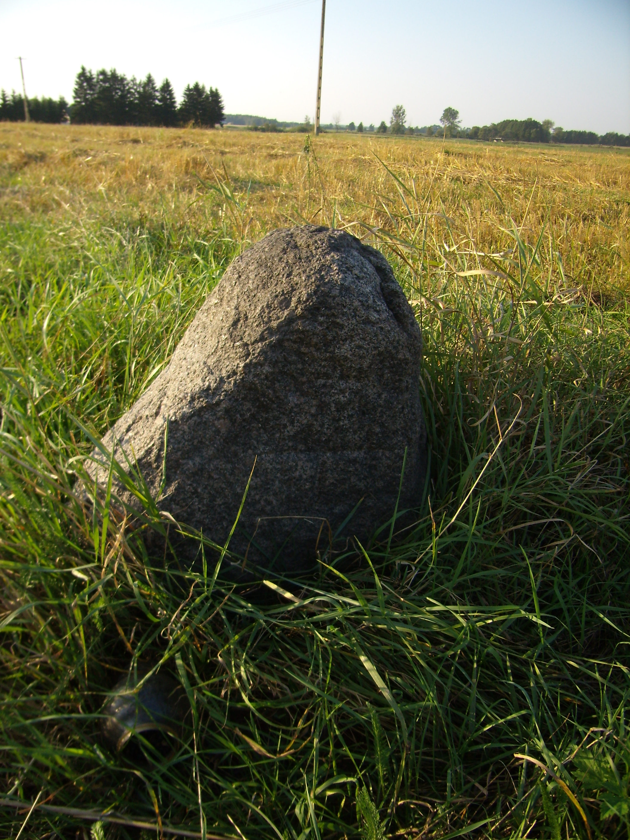 stone with cross, mass grave where soldiers of Bar Confederation were burried, Łomazy (Głuch near Studzianka)